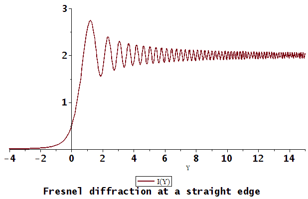 Fresnel diffraction at a straight edge